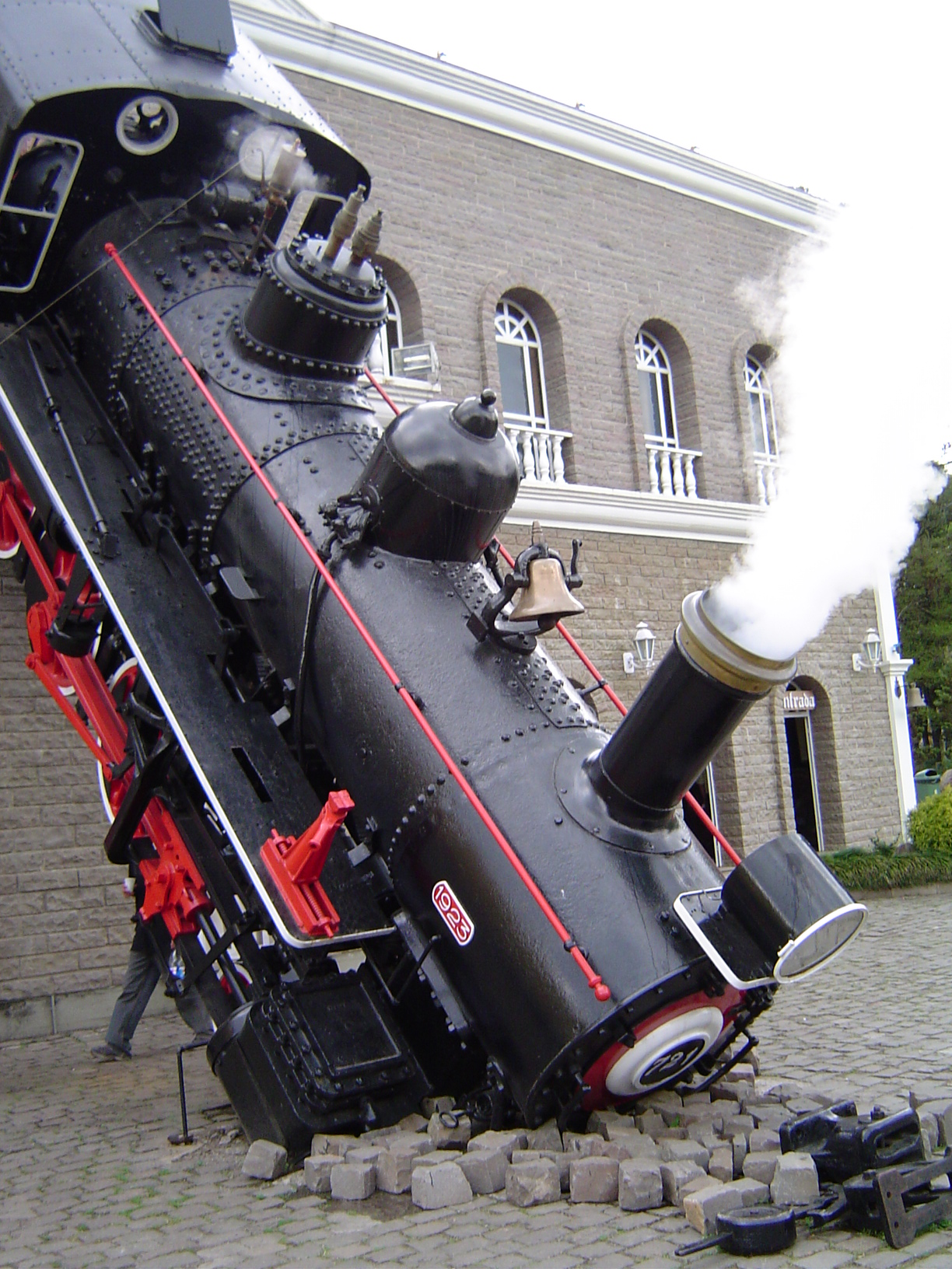 Reconstruction of the Montparnasse Crash of 1895 at Mundo a Vapor em Canela, RS, Brasil